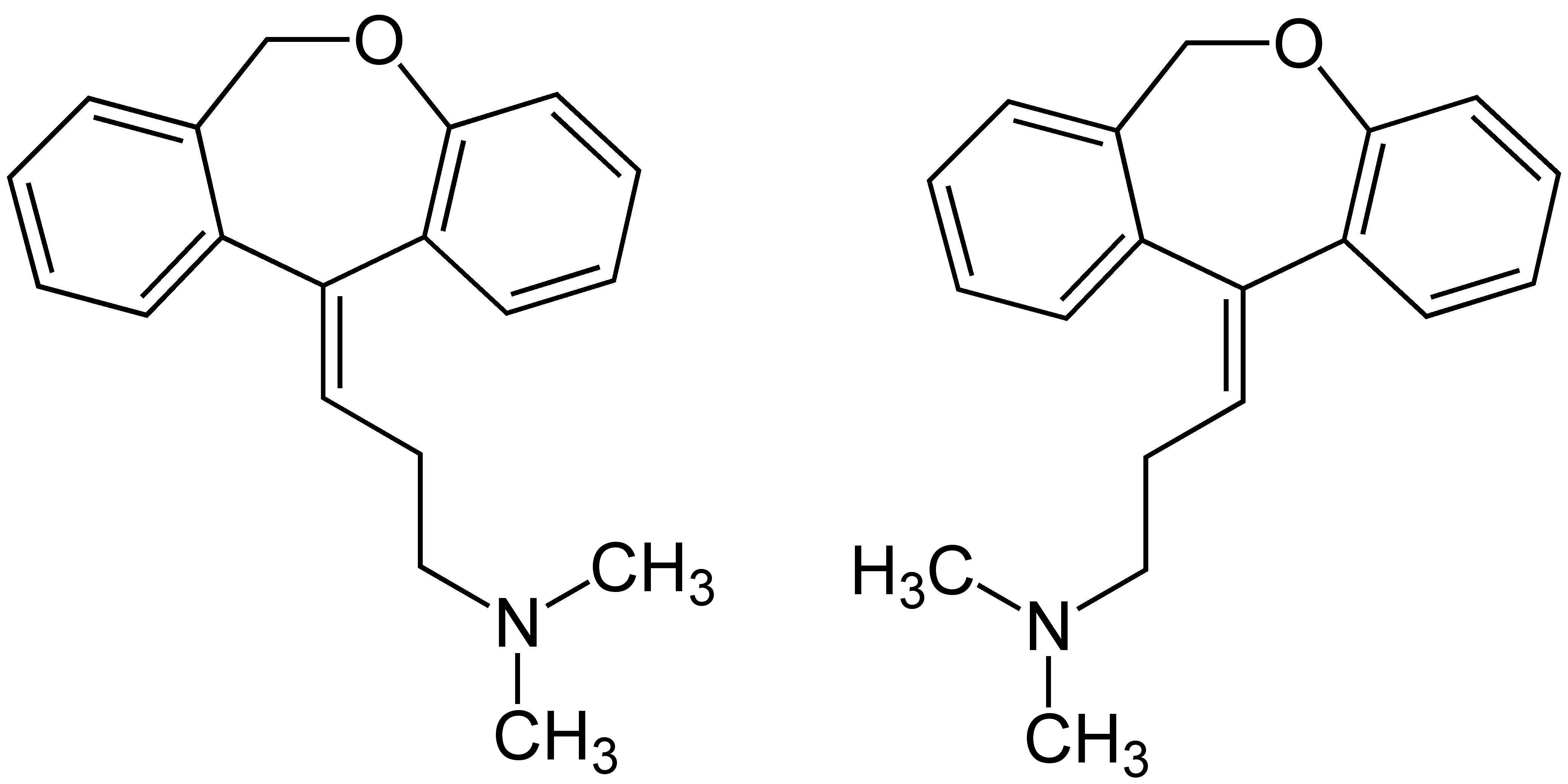 (E,Z)-Doxepin_Structural-Formulae (mixture of cis- and trans-isomers)